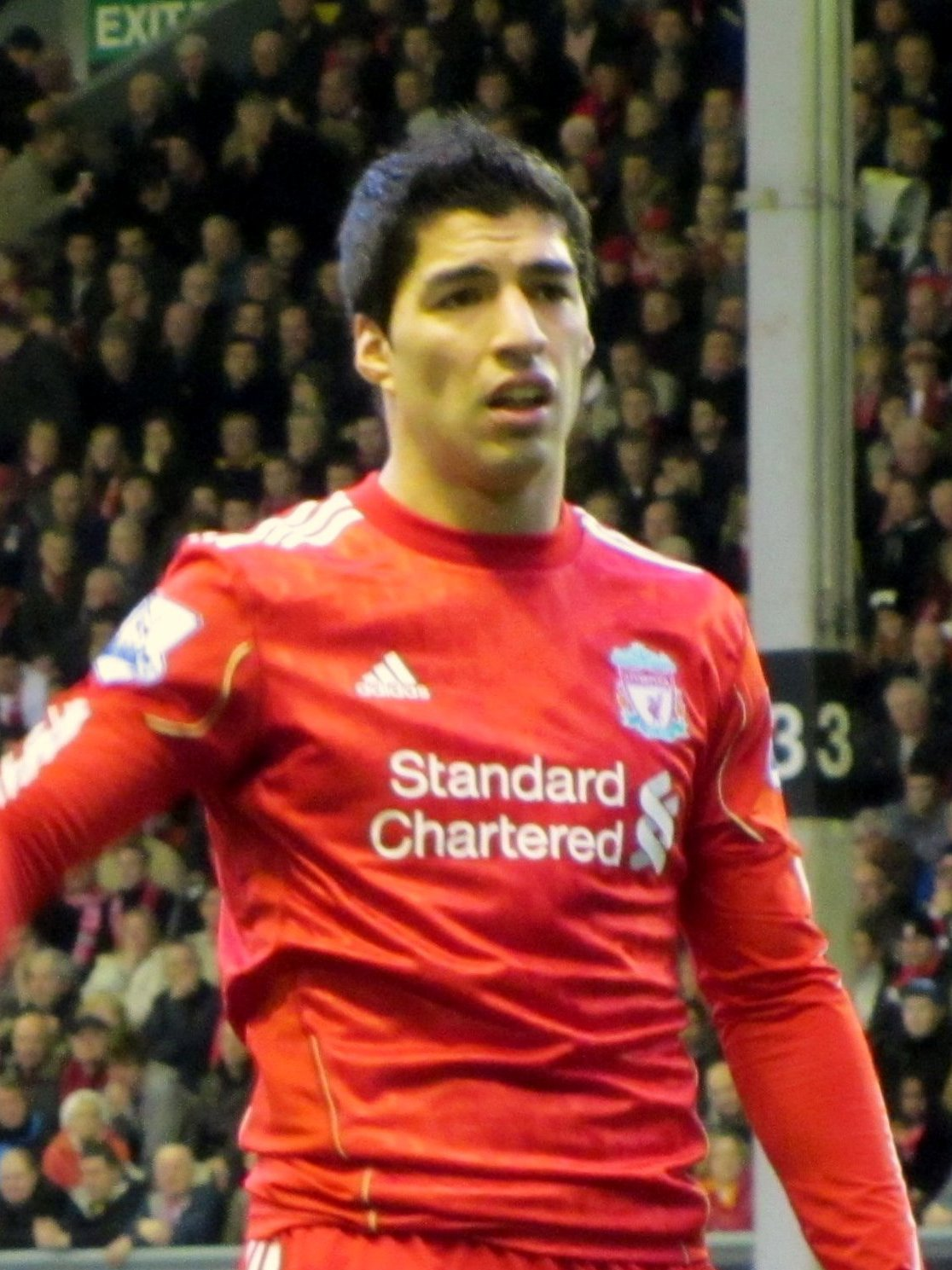 Luis Suárez Díaz during the game against Blackburn Rovers